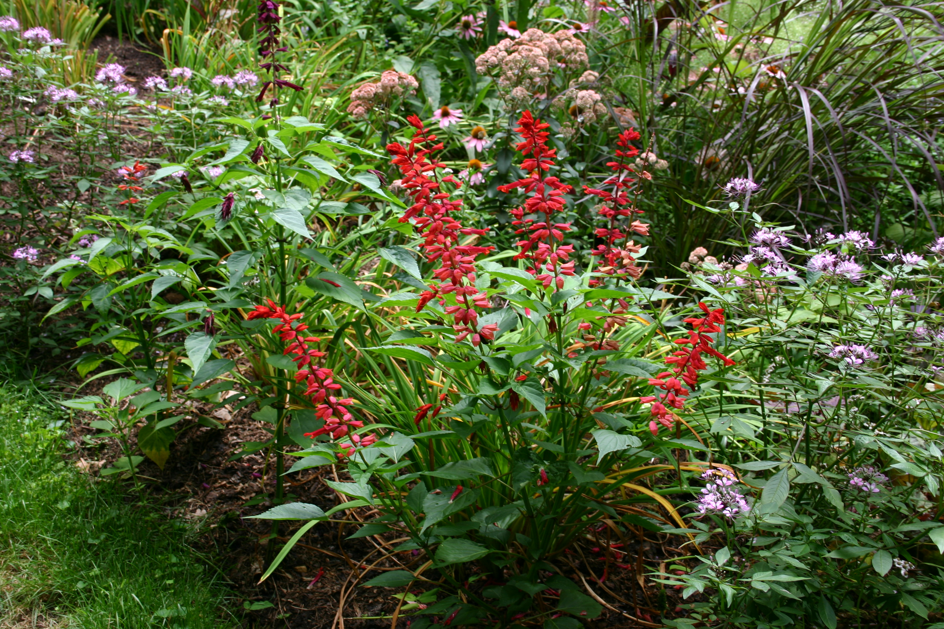 Salvia vanhouttei (red-flowered form)